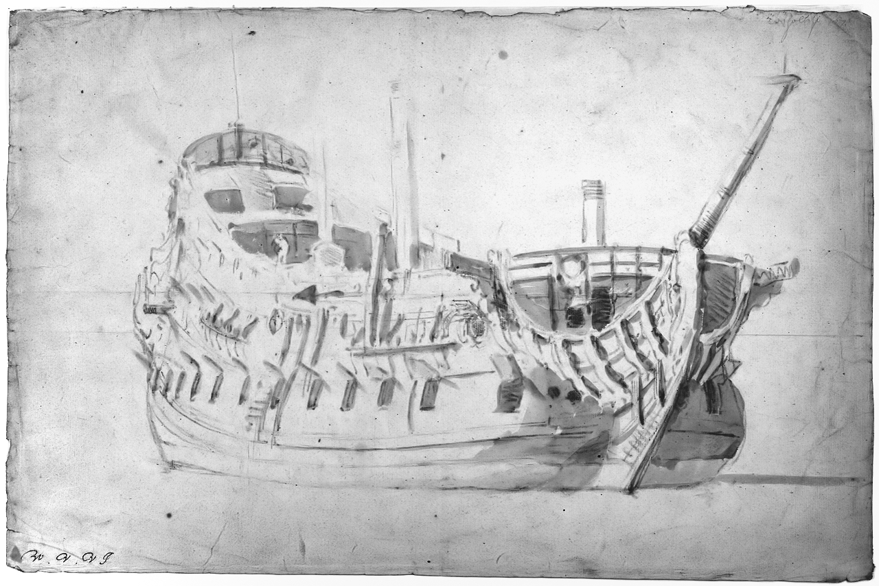 The ‘Resolution’, third rate built in 1667, 32 guns; she was wrecked in 1692. She is viewed from the starboard bow. Drawn high out of the water. 301 x 453 mm